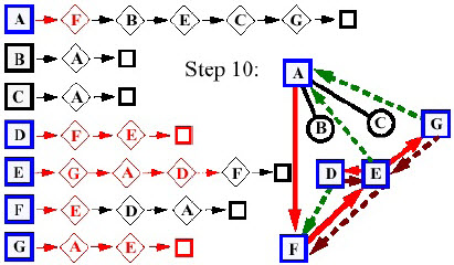 Dry run Depth-first search Algorithm in Graph, step 10